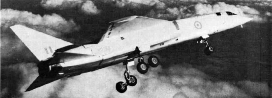 The BAC TSR-2 (serial XR219) in flight in 1964.